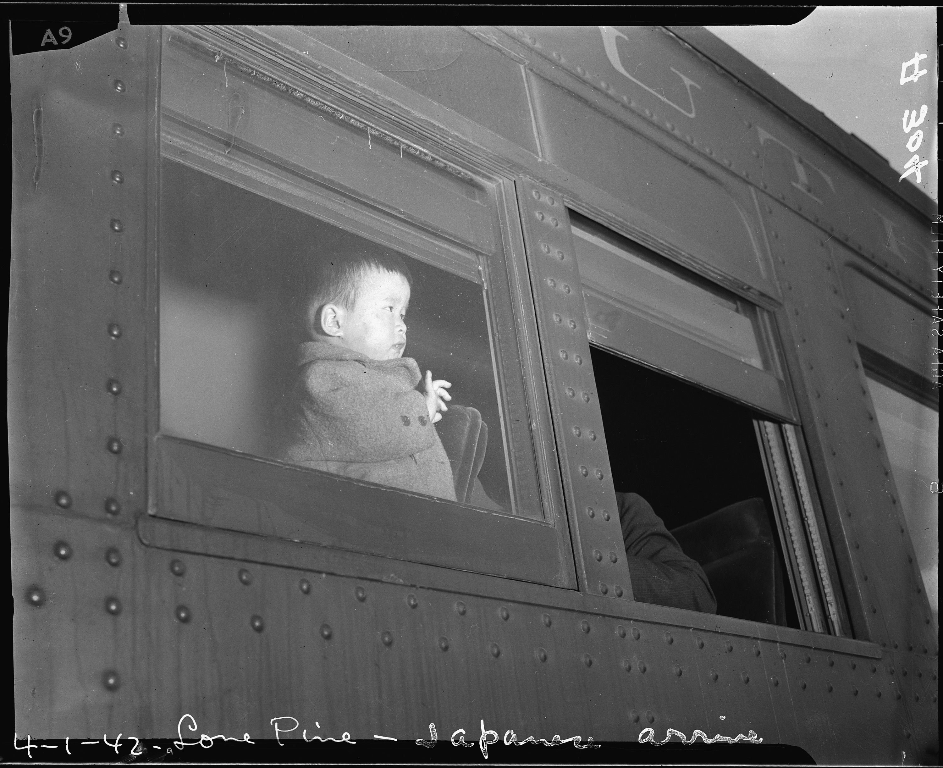 Scope and content: The full caption for this photograph reads: Lone Pine, California. A young evacuee of Japanese ancestry arrives here by train prior to being transferred by bus to Manzanar, now a War Relocation Authority center.